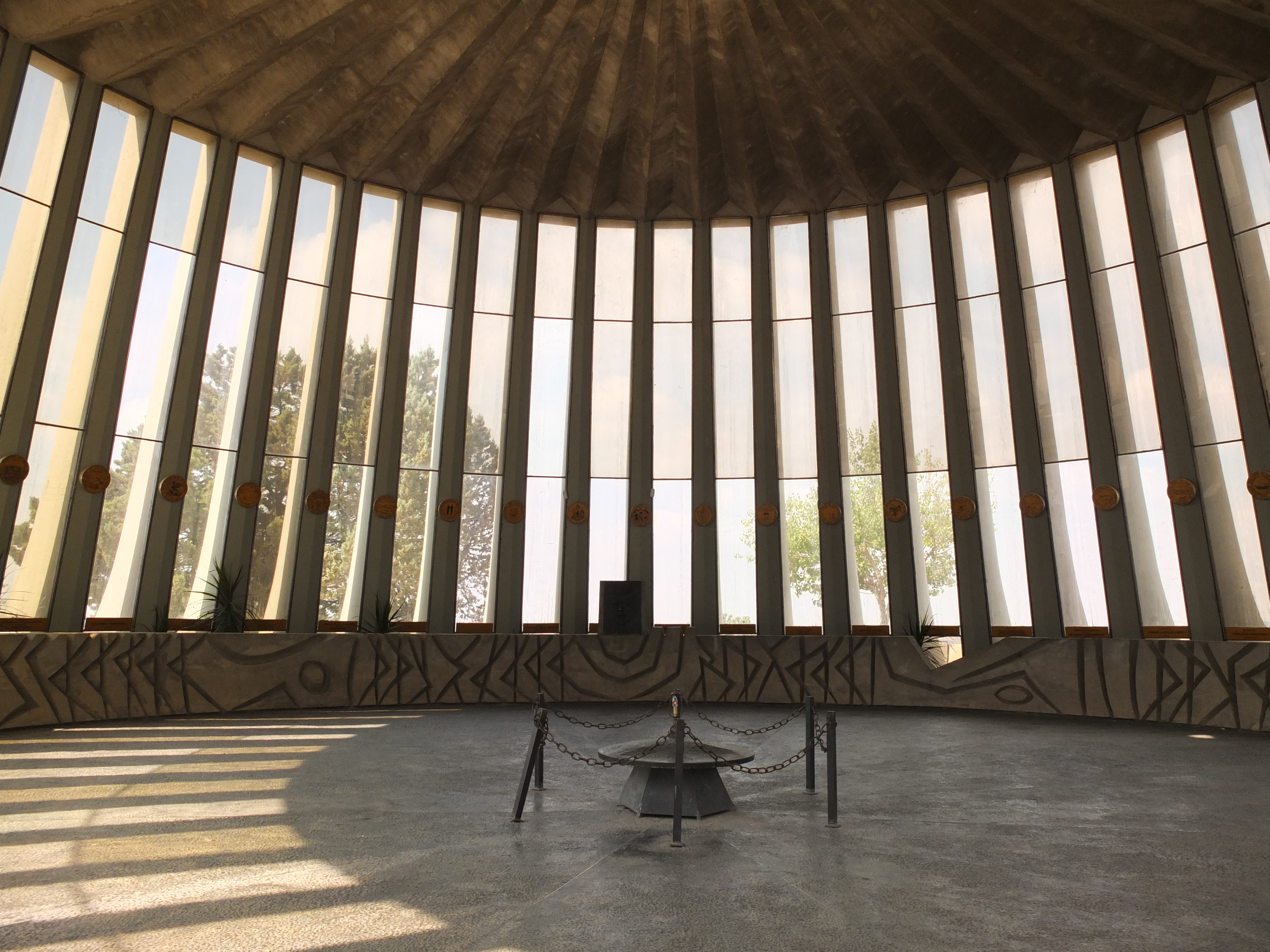 Yad Kennedy, Jerusalem Forest, interior with eternal flame and pillars decorated with state seals